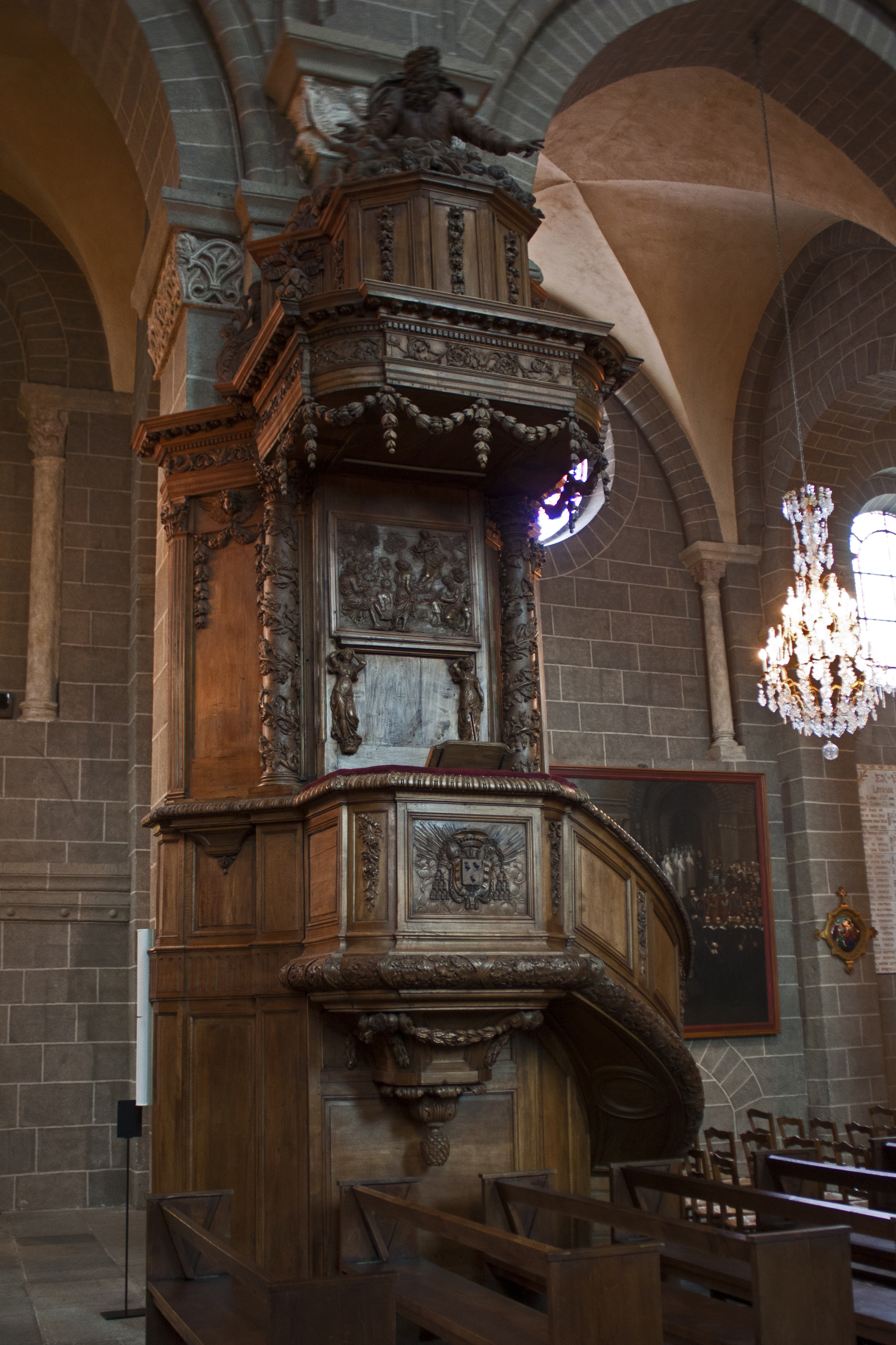 Pupit, of walnut sculted, by Pierre Vaneau.